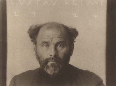 Photographic portrait of Gustav Klimt